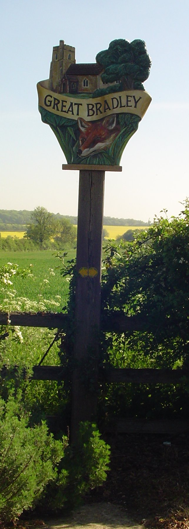 Signpost in Great Bradley